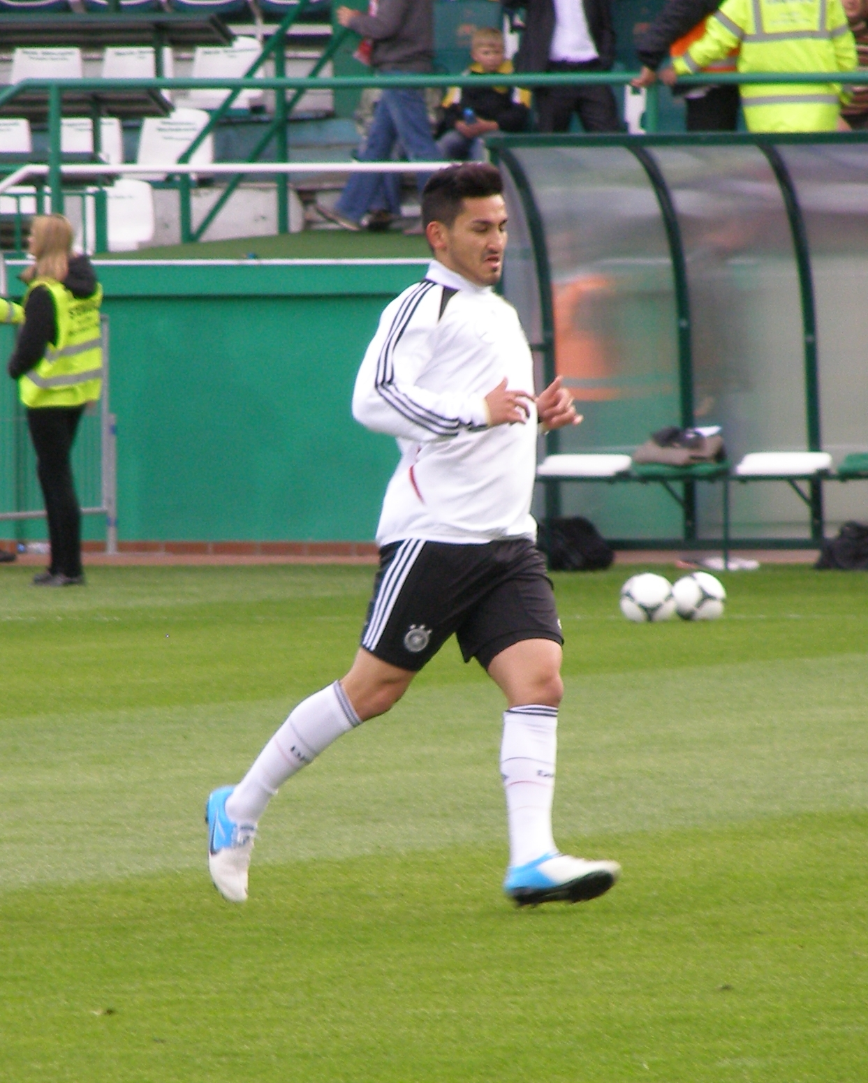 Gdańsk - open training of the Germany national team before Euro 2012 tournament at the MOSiR stadium - İlkay Gündoğan